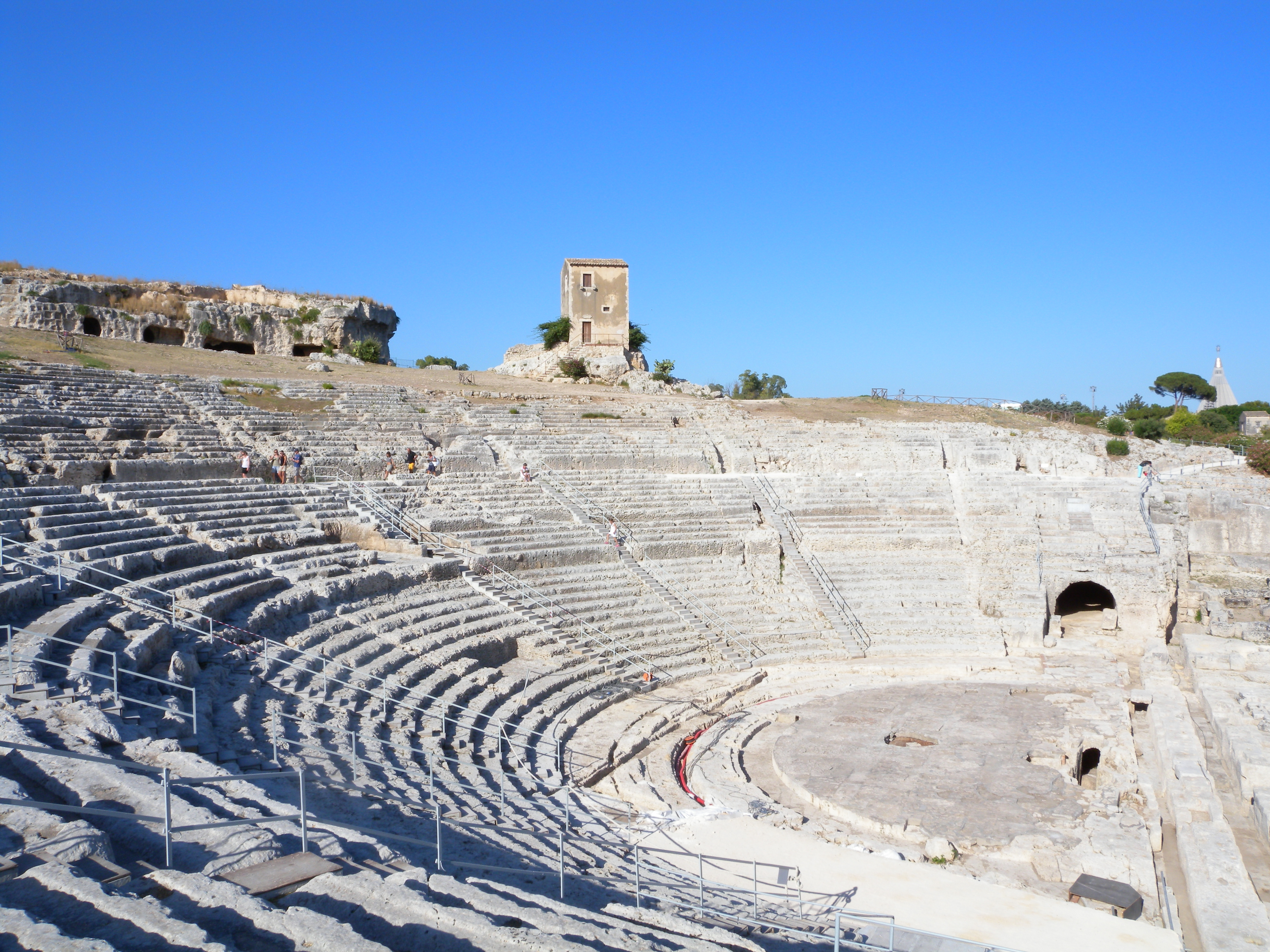 Greco-Roman amphitheatre